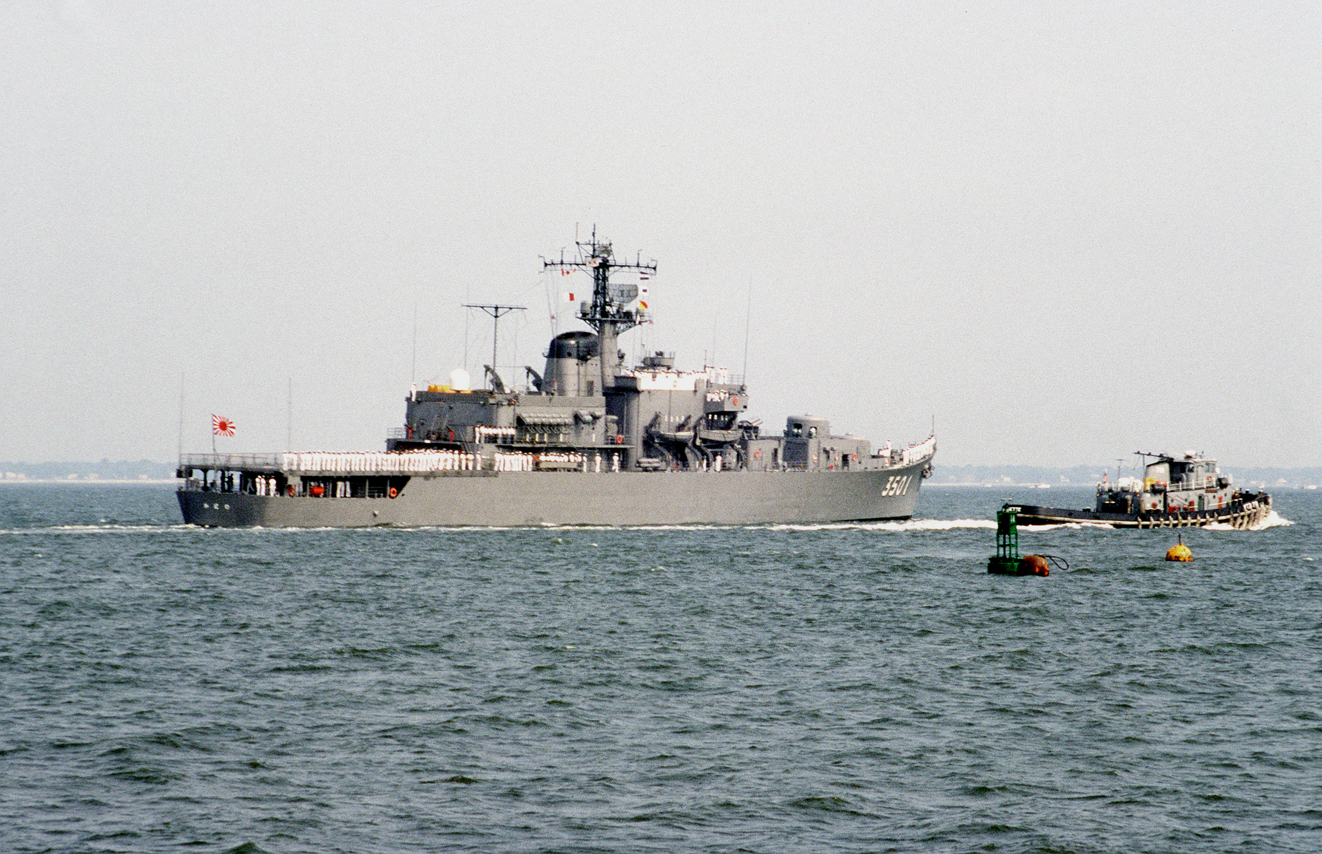 A starboard quarter view of the Japanese training ship KATORI (TV-3501) underway in the harbor. The KATORI, along with other ships from the Japanese Maritime Self-Defense Force, is visiting Naval Operating Base, Norfolk.